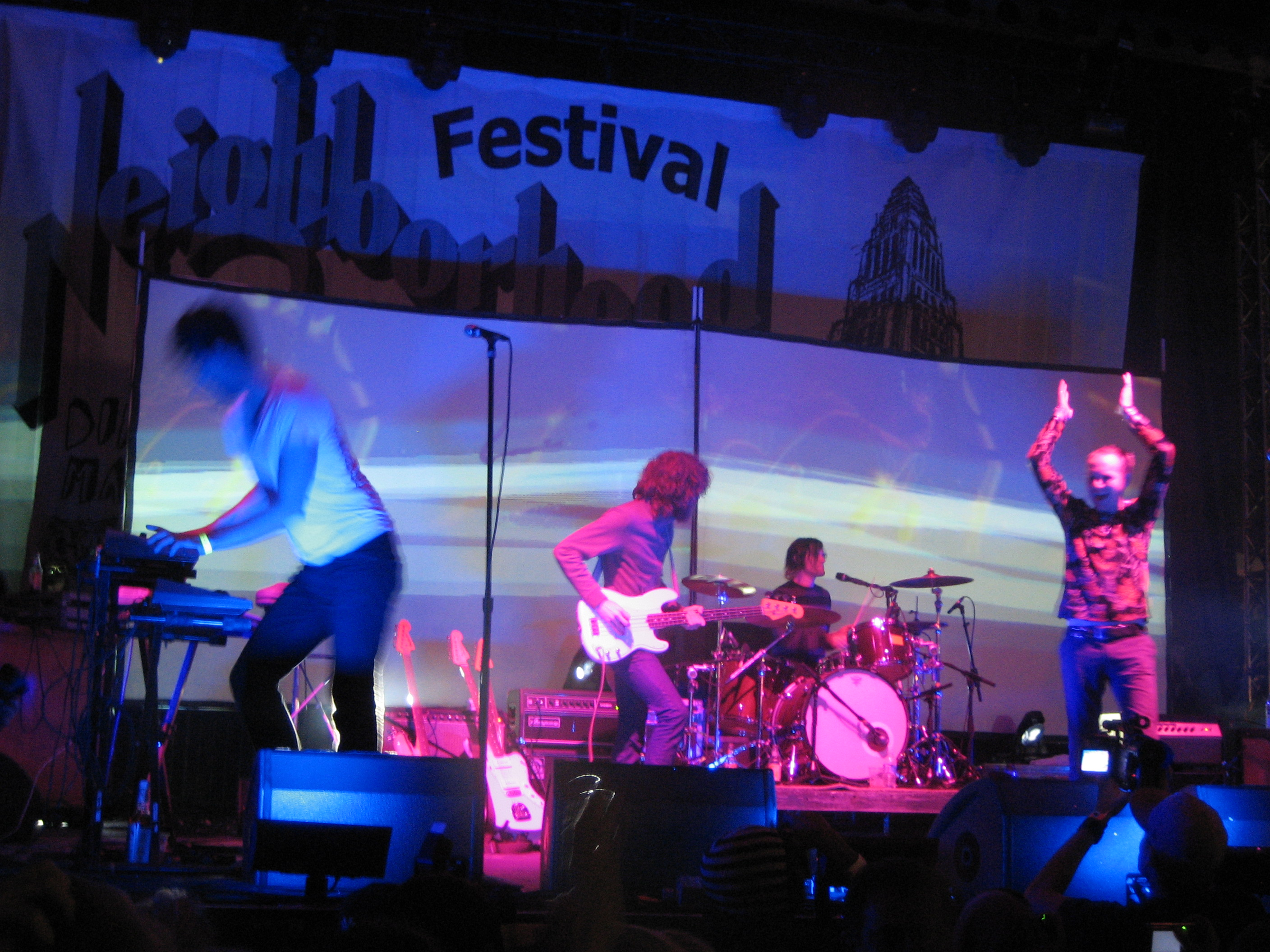 The Faint